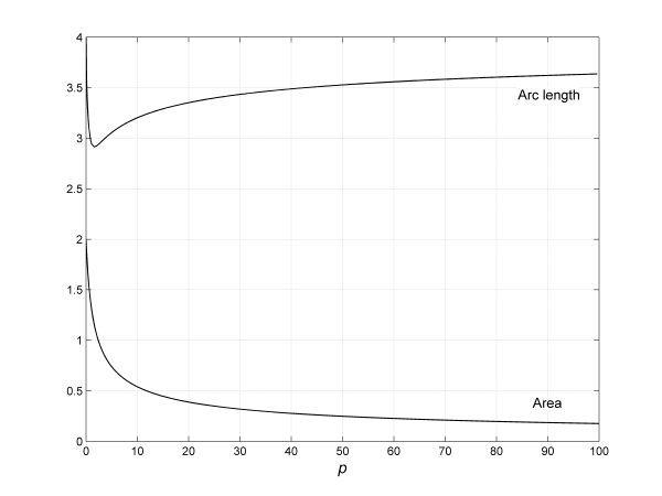 SuperParabolaLengthLarge